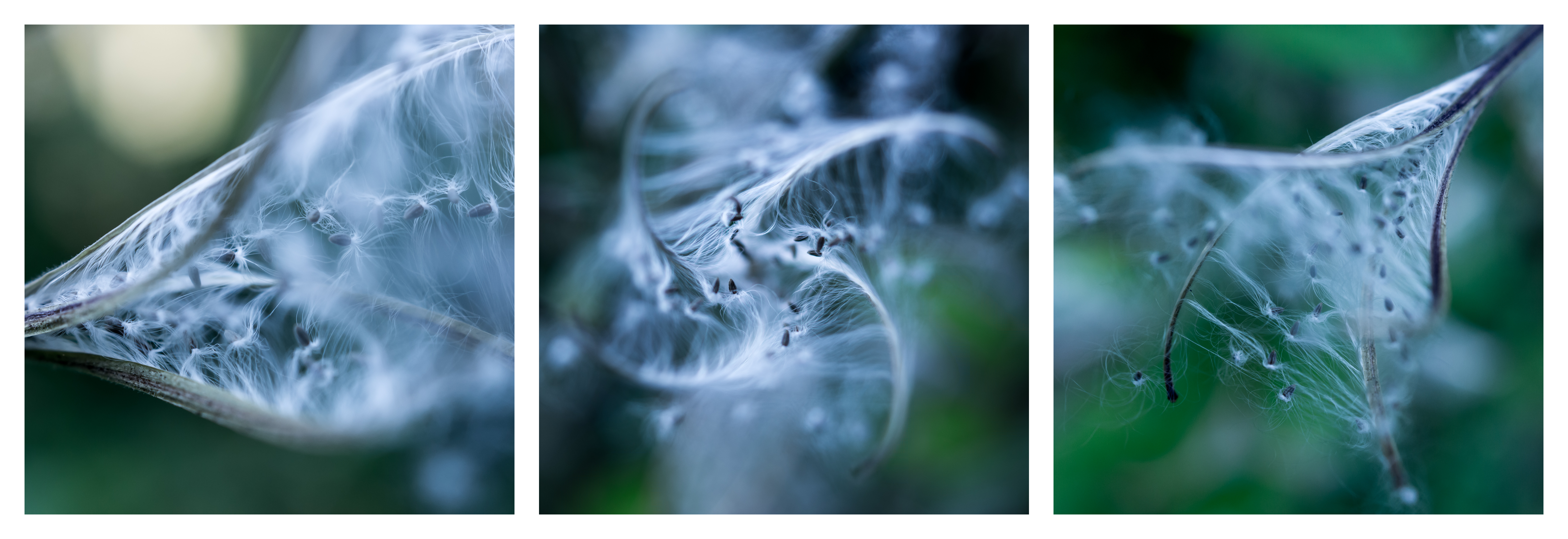 A triptych of the seed heads of a Great Willowherb (Epilobium hirsutum).